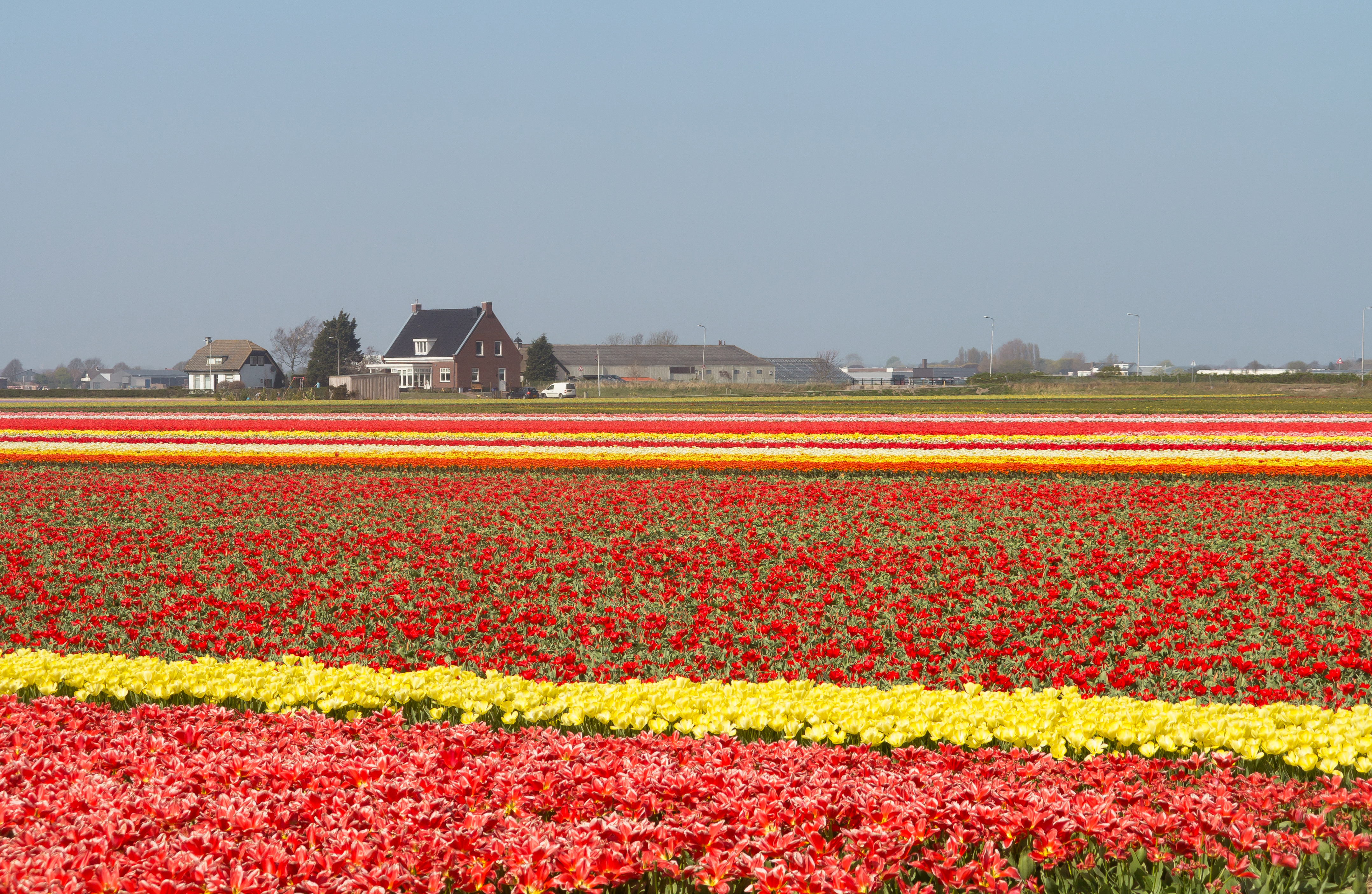 Lisse, tulips in the field in different colours